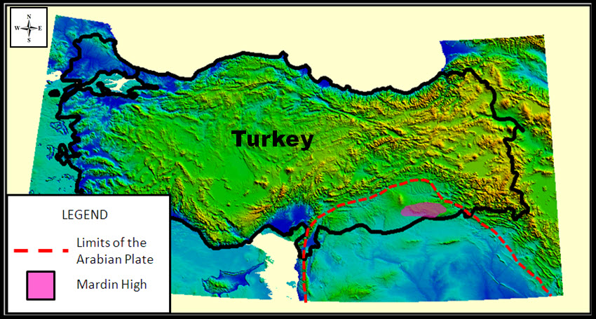 Limits of the Mardin High